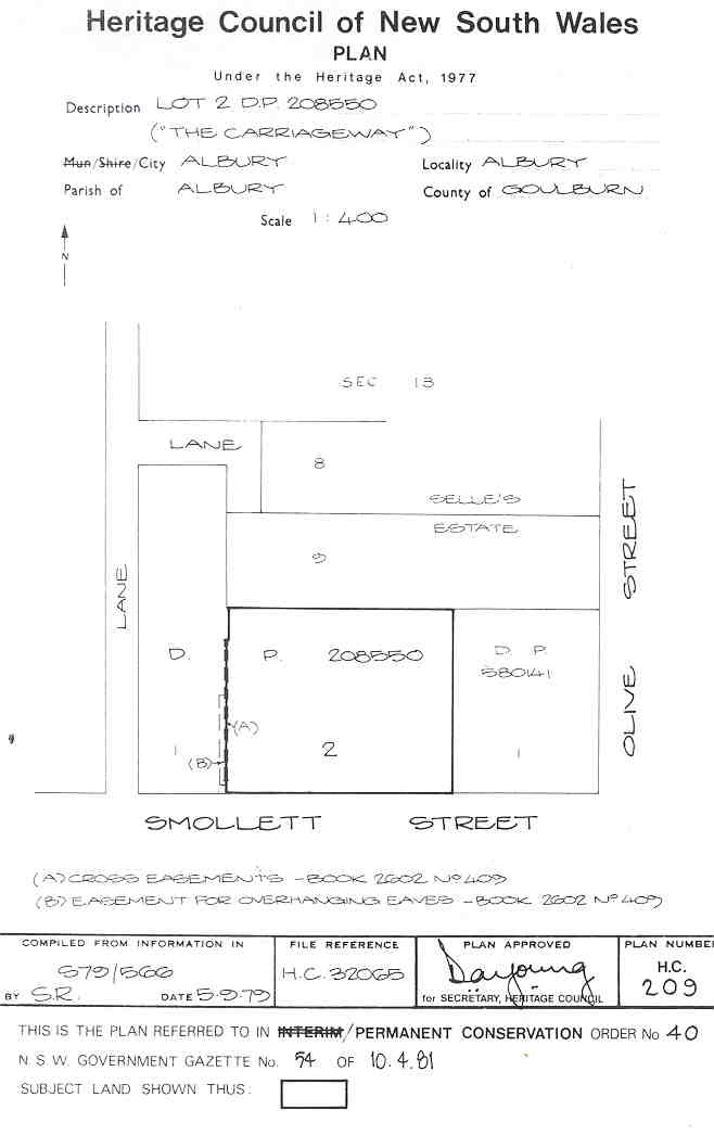 The Carriageway: PCO Plan Number 040